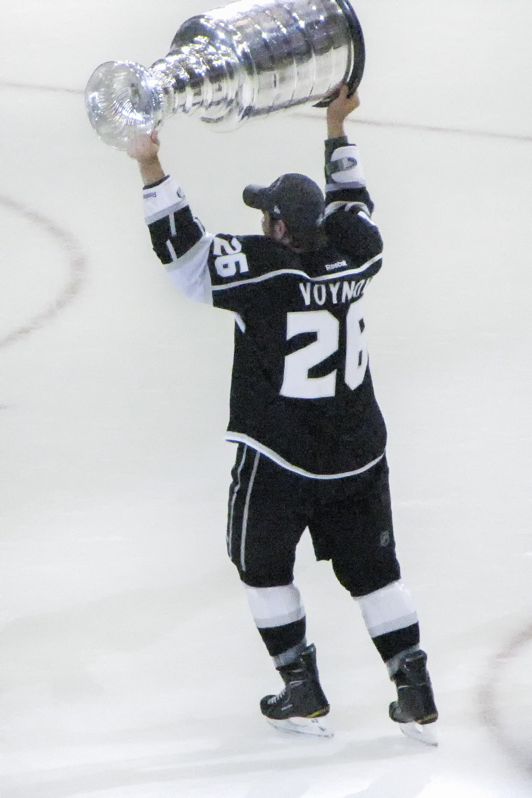 In April 2013 the Kings posted a nice video about receiving The Stanley Cup